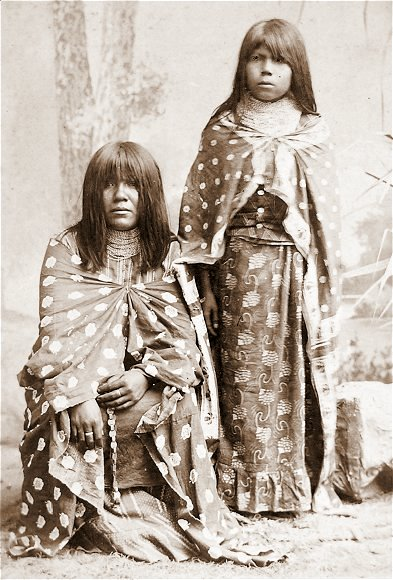 Quechan Indians, Mother & Daughter